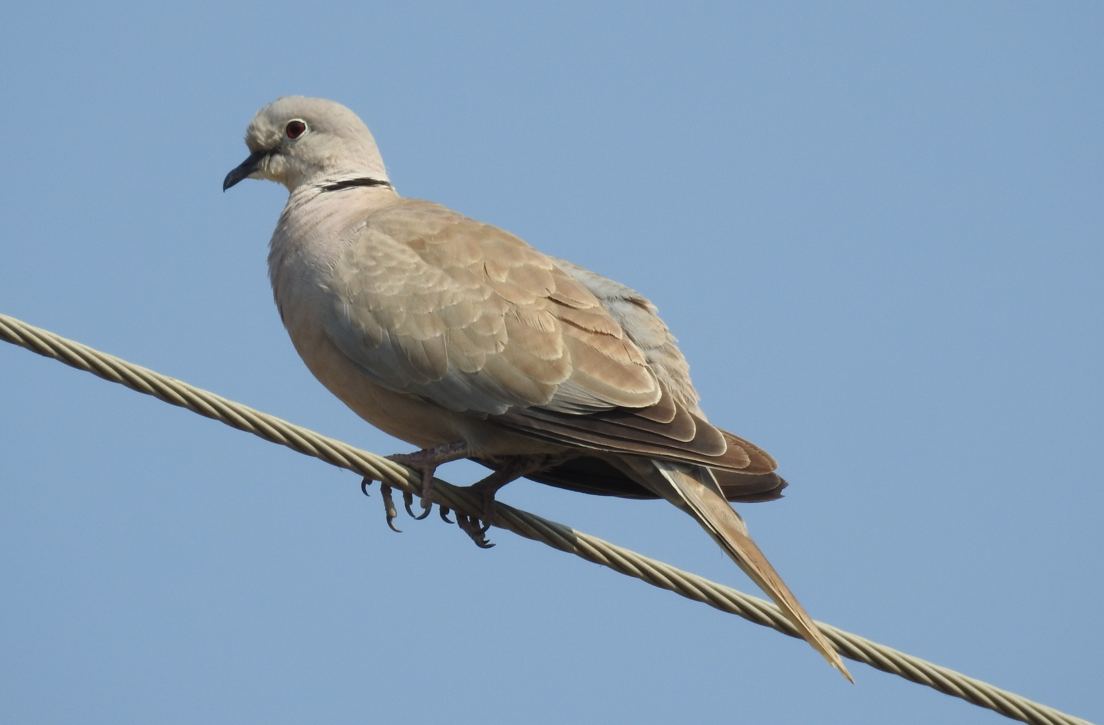 Eurasian Collared Dove or Eurasian Collared-Dove Streptopelia decaocto. Photographed in Yavatmal district, Maharashtra, India.